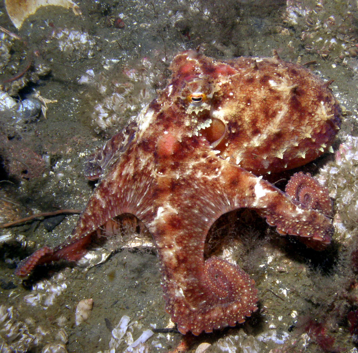 An East Pacific Red Octopus, Octopus rubescens, found near Whidbey Island, WA.